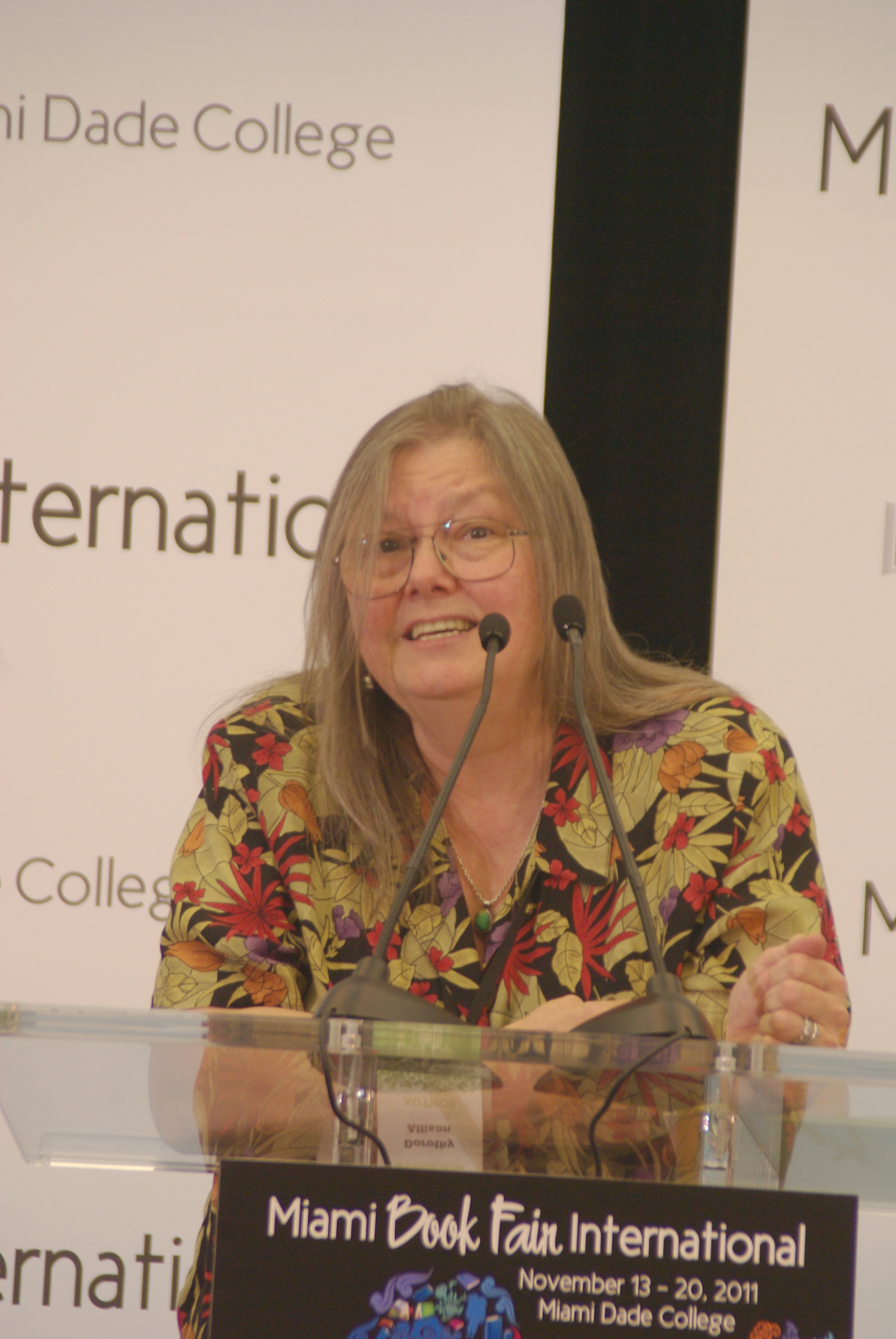 American writer Dorothy Allison at the Miami Book Fair International 2011